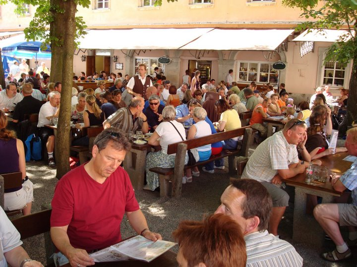 Weltenburg Abbey, Photo by Rajesh Kakkanatt - Aug. 2007